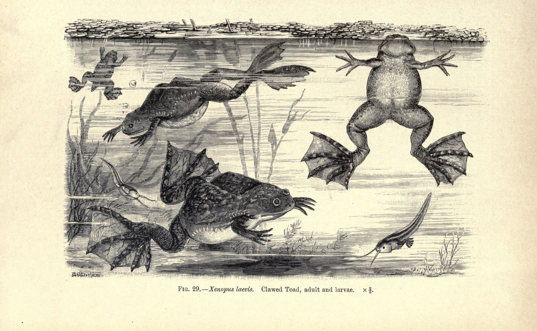 Amphibia and reptiles, by Hans Gadow.